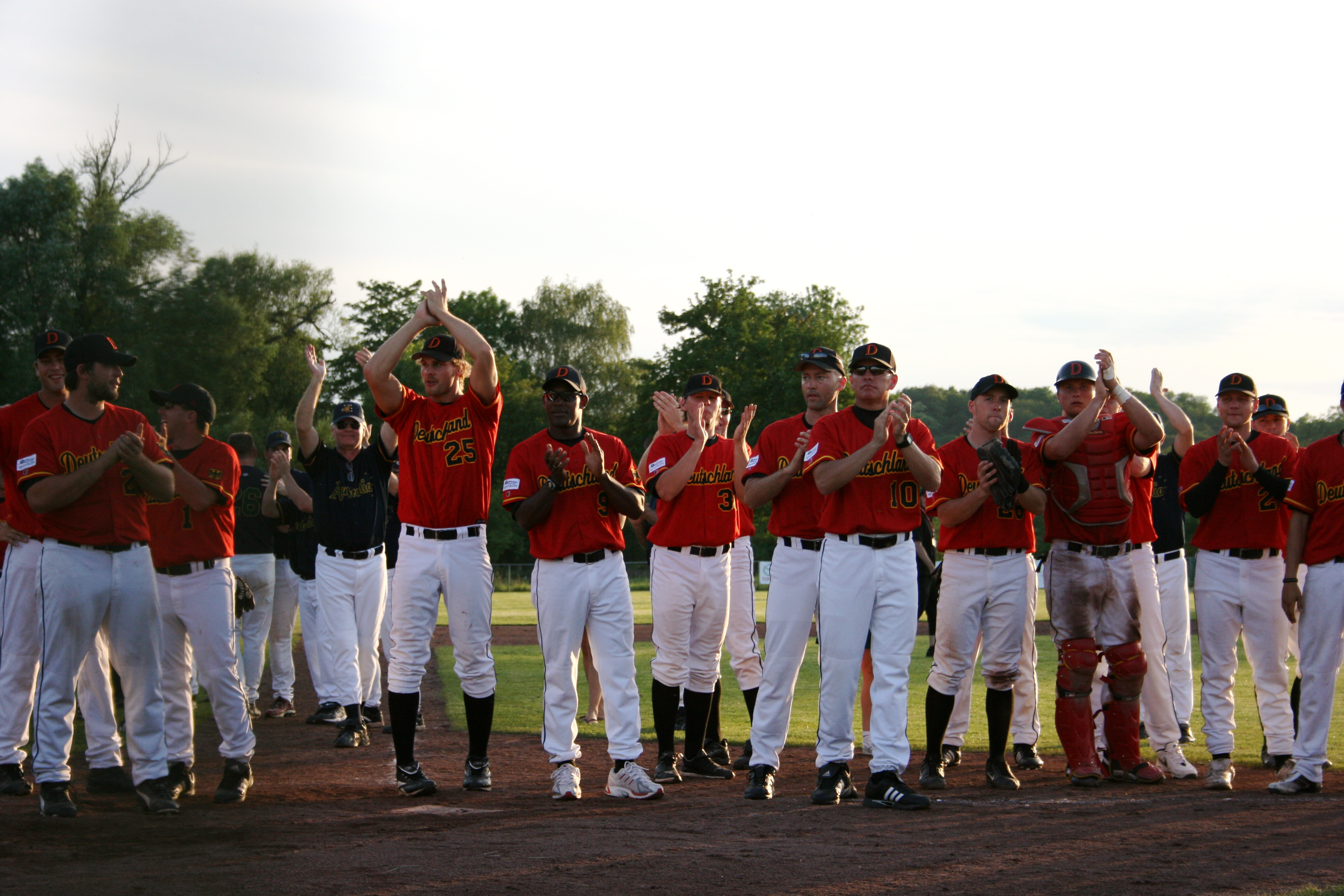 Germany national baseball team after a match against the Australian national baseball team